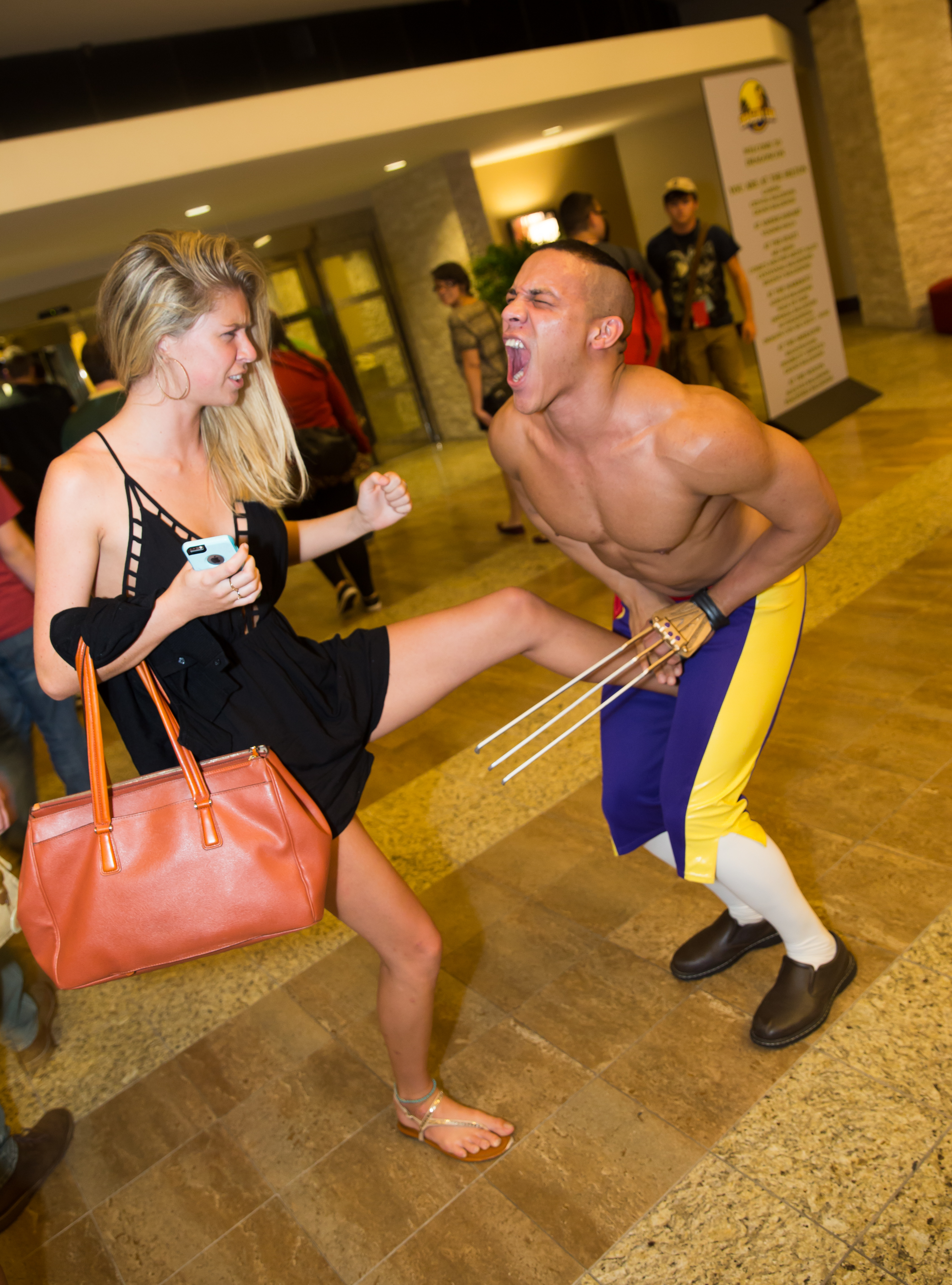 I wanted a picture of Vega picking his nose, but the guy interrupted me and yelled "No! Kick me in the crotch". And this was the photo I got. Cosplay at Dragon*Con 2015.